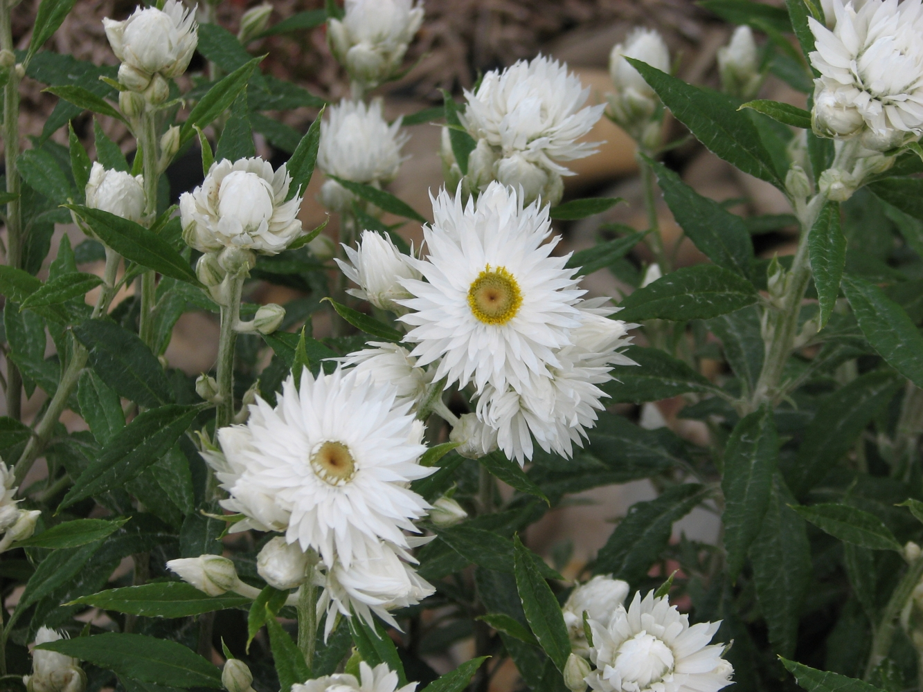 Coronidium elatum (cultivated, labelled as Helichrysum elatum) Royal Botanic Gardens Cranbourne, Victoria, Australia